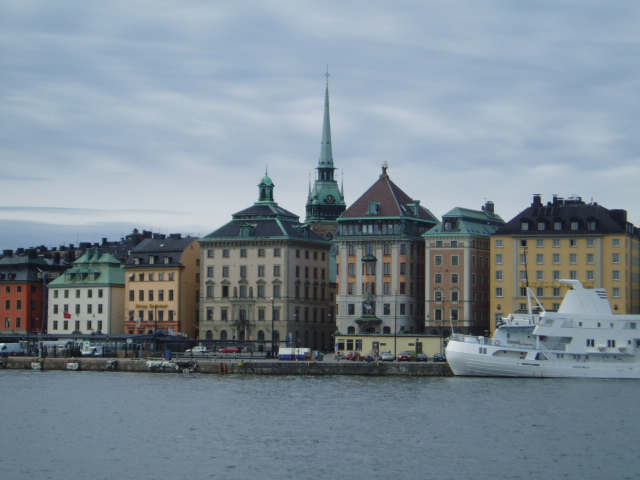 Vista of Stockholm's Old City (Gamla Stan}, with the tower of the German Church (Tyska Kyrkan) visible.